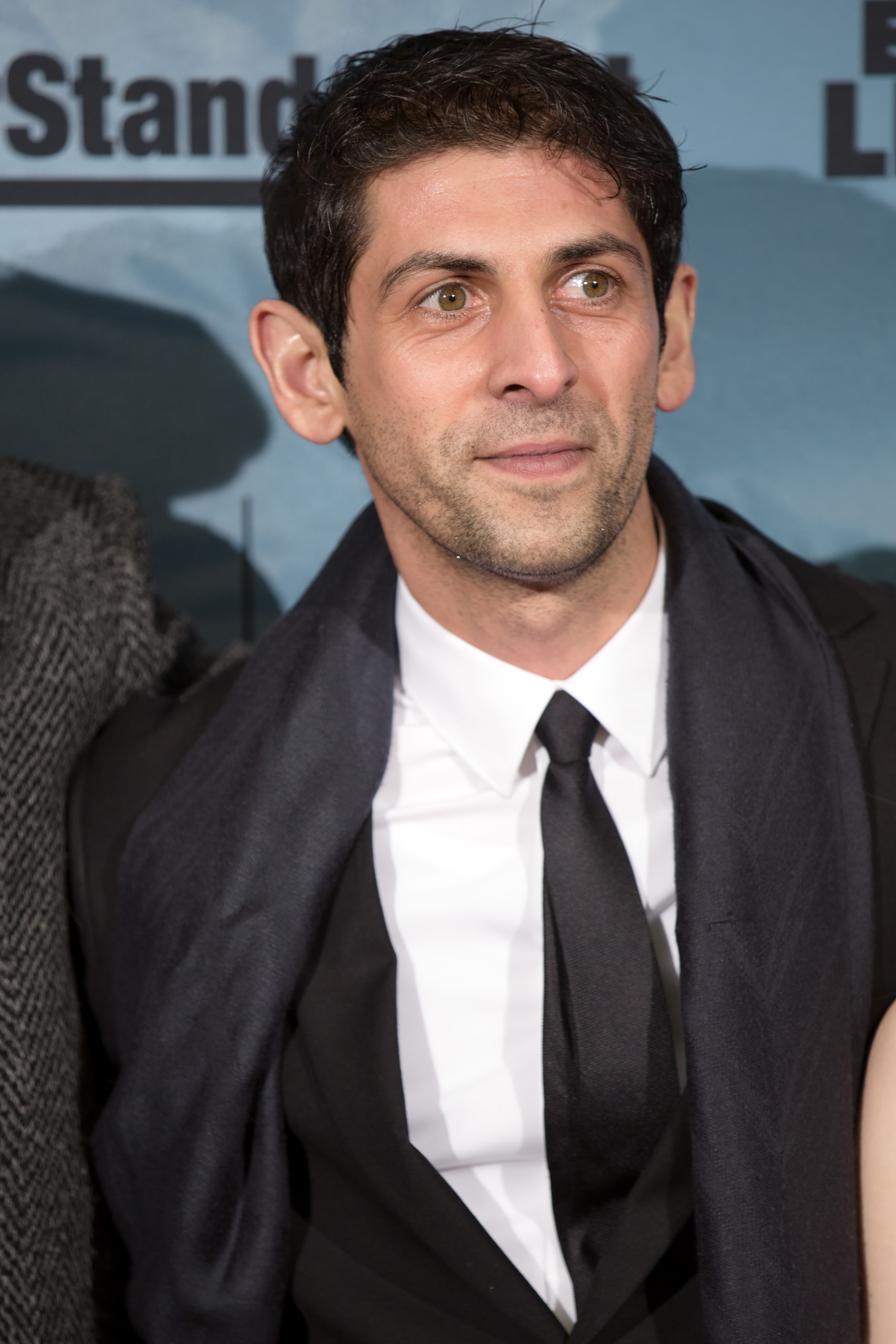 Premiere of the film Das ewige Leben at Gartenbaukino in Vienna, Austria: Saša Barbul.